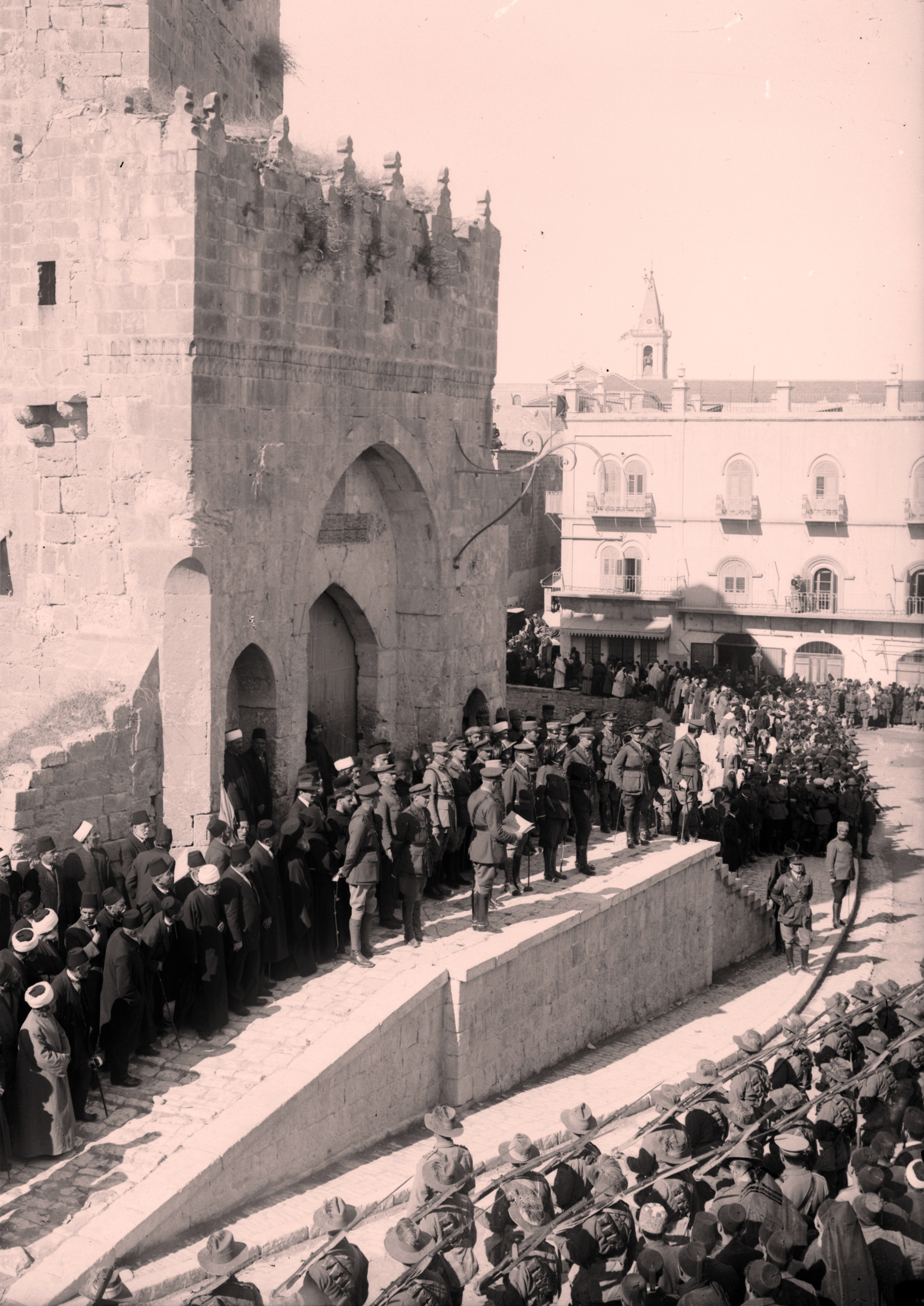 Entry of Field Marshall Allenby, Jerusalem, December 11th, 1917. Field Marshall Allenby and Borton Pasha at Citadel